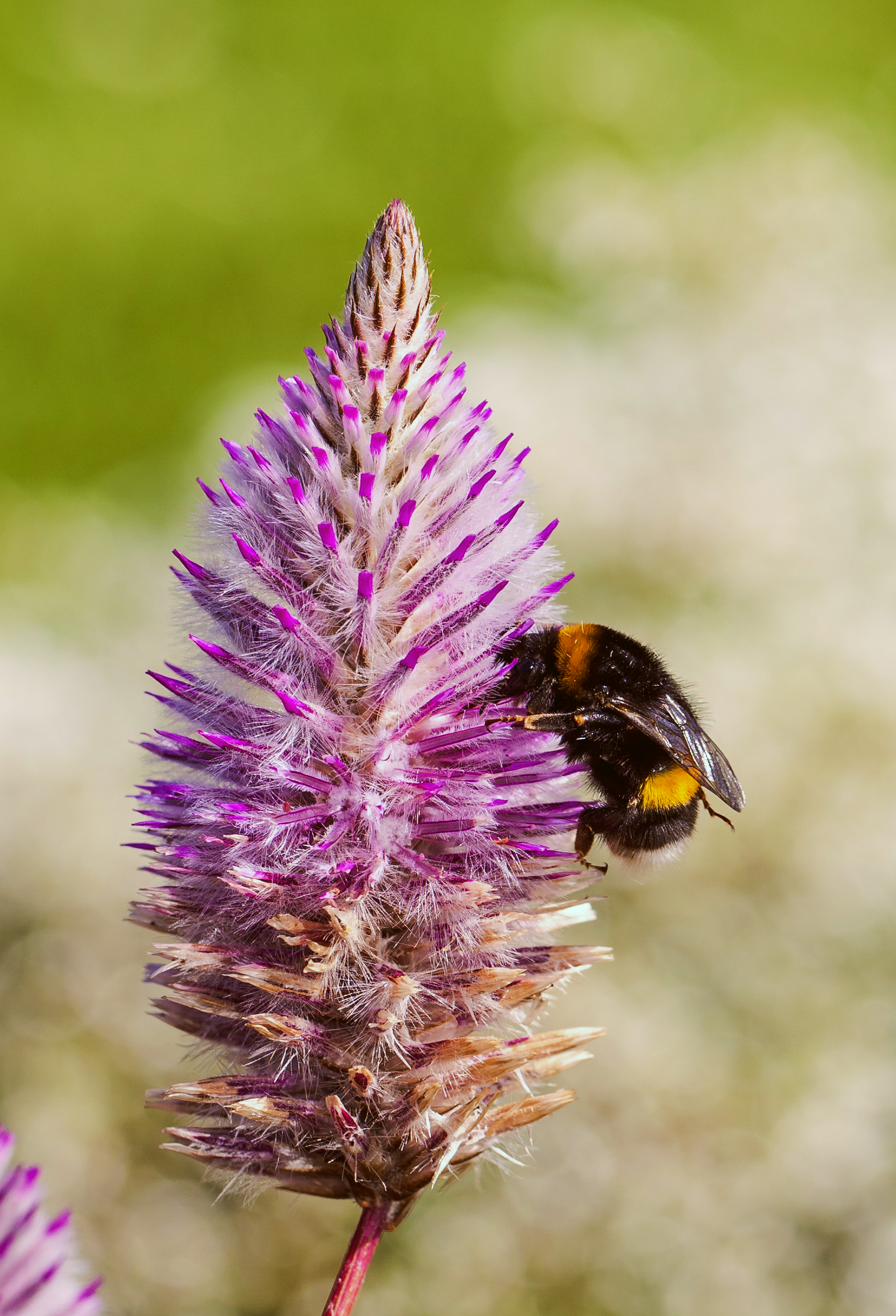 Bumbleee (Bombus terrestris) on a Ptilotus exaltatus, Tallinn Botanic Garden, Estonia